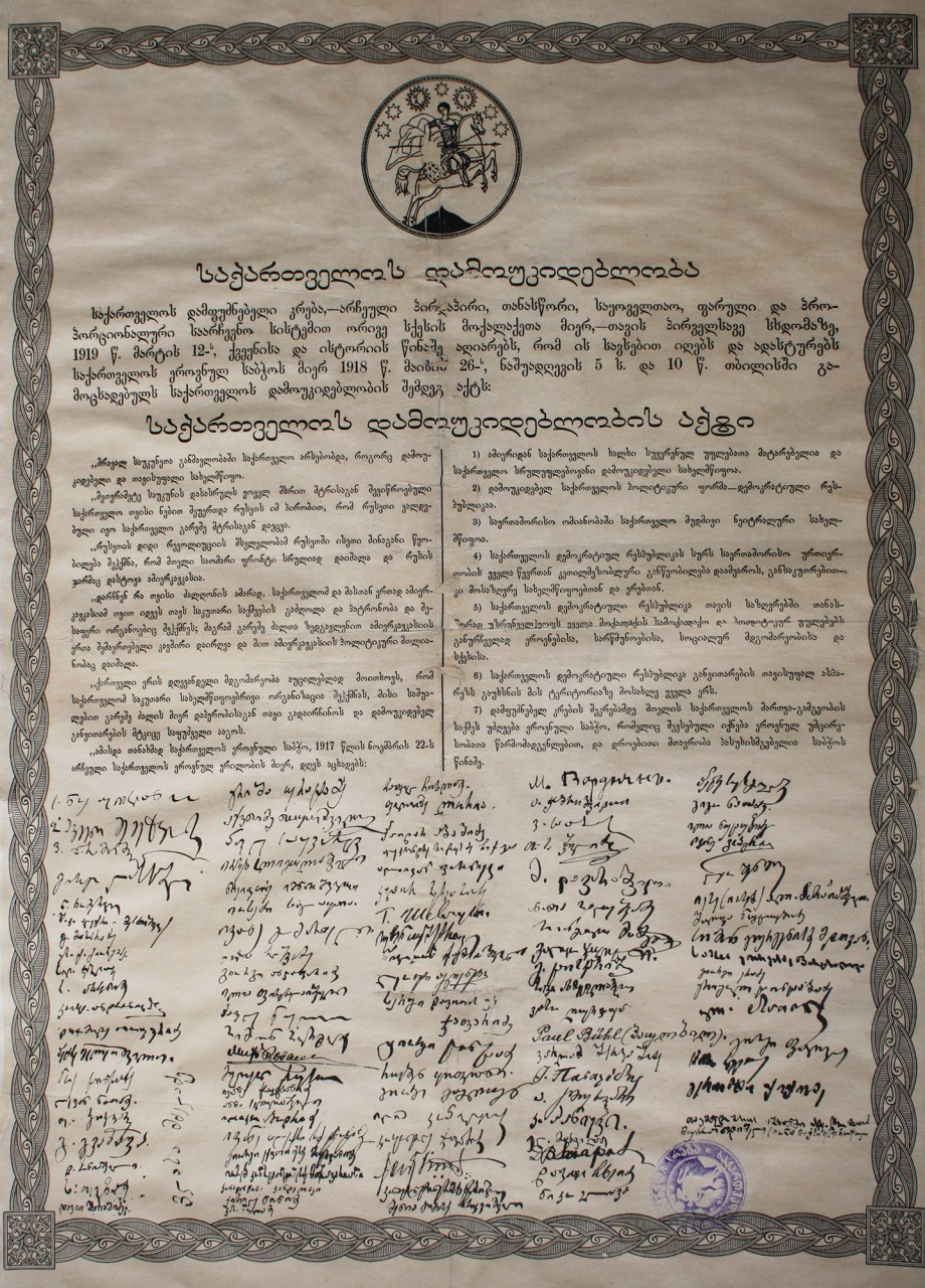 Act of the Independence of Georgia (1918)